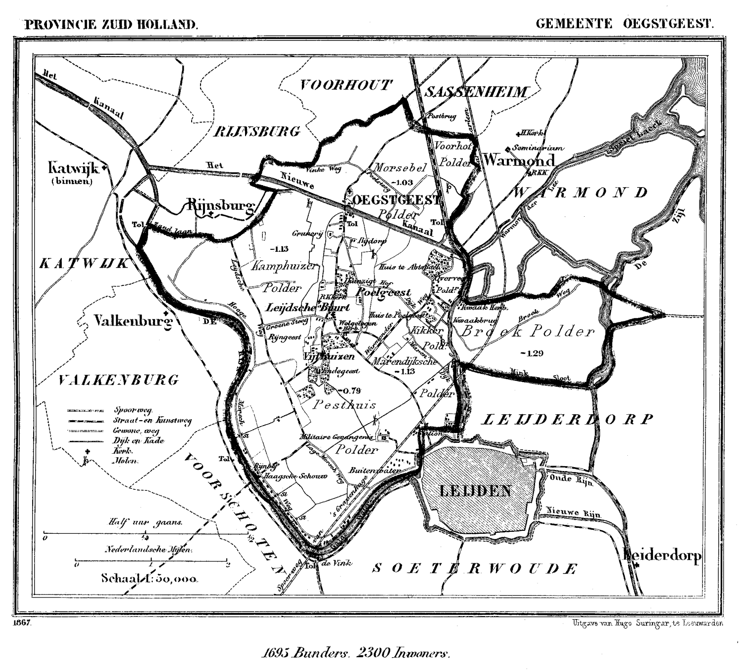 Historic map of Oegstgeest, South Holland, the Netherlands